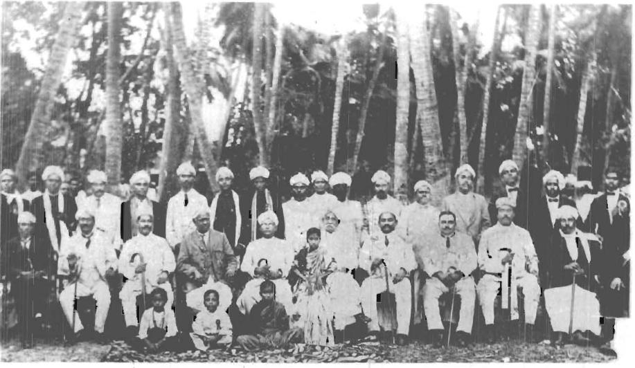 A Group photo of Justice Party leaders of the Madras Presidency taken in 1920s. Sir P. Thyagagoraya Chetty is seated at the centre (with a girl sitting beside). Also present in the photograph are Raja of Panagal, Raja of Venkatagiri and Arcot Ramaswamy Mudaliar